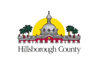 The flag of Hillsborough County, Florida.